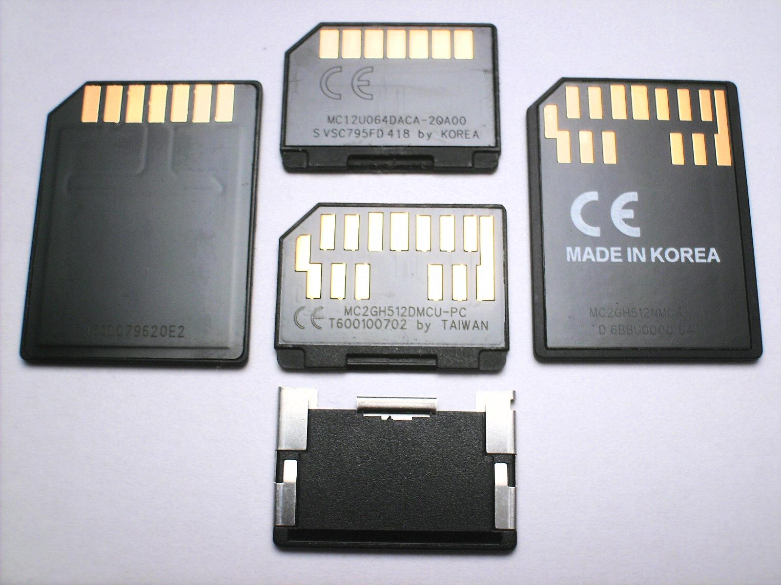 Back of four types of MMC card, clockwise from left: MMC, RS-MMC, MMCplus, MMCmobile. Below them is a metal mechanical adaptor to use half-size cards in full-size slots.